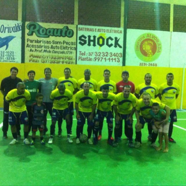 Vilense Velha Guarda, veteran Vilense team